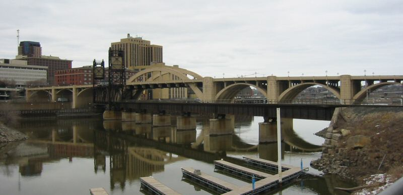 The Robert Street Bridge in downtown St. Paul, crossing the Mississippi River.